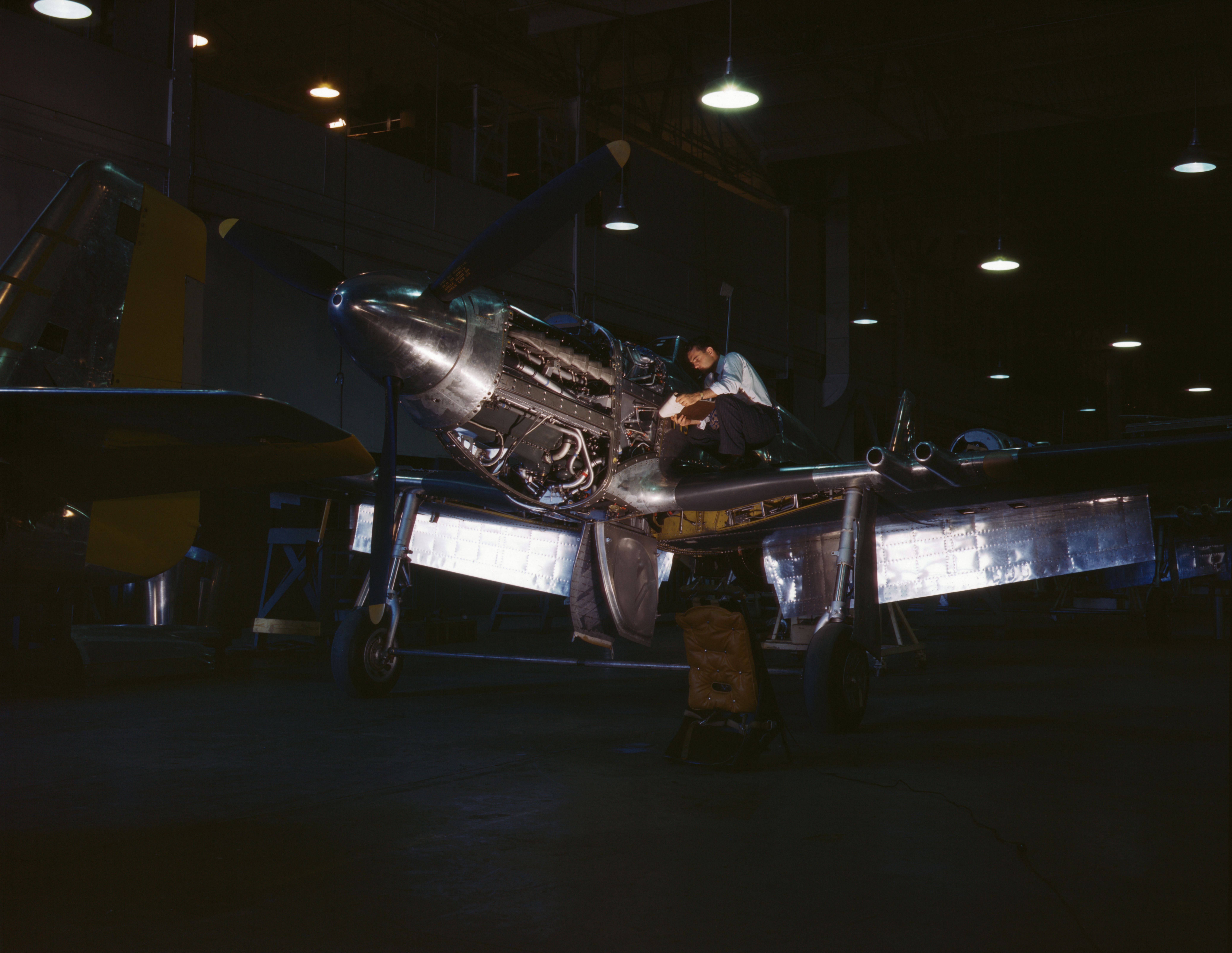 P-51 Mustang fighter plane in construction, North American Aviation, Inc, Los Angeles, California (USA). Note: Due to the cannon ports visible on the wings, this aircraft is either a British Mustang Mark I or an USAAF A-36A Apache.